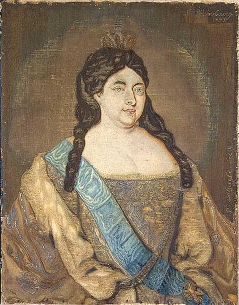 Anna Ioannovna, russian empress from 1730